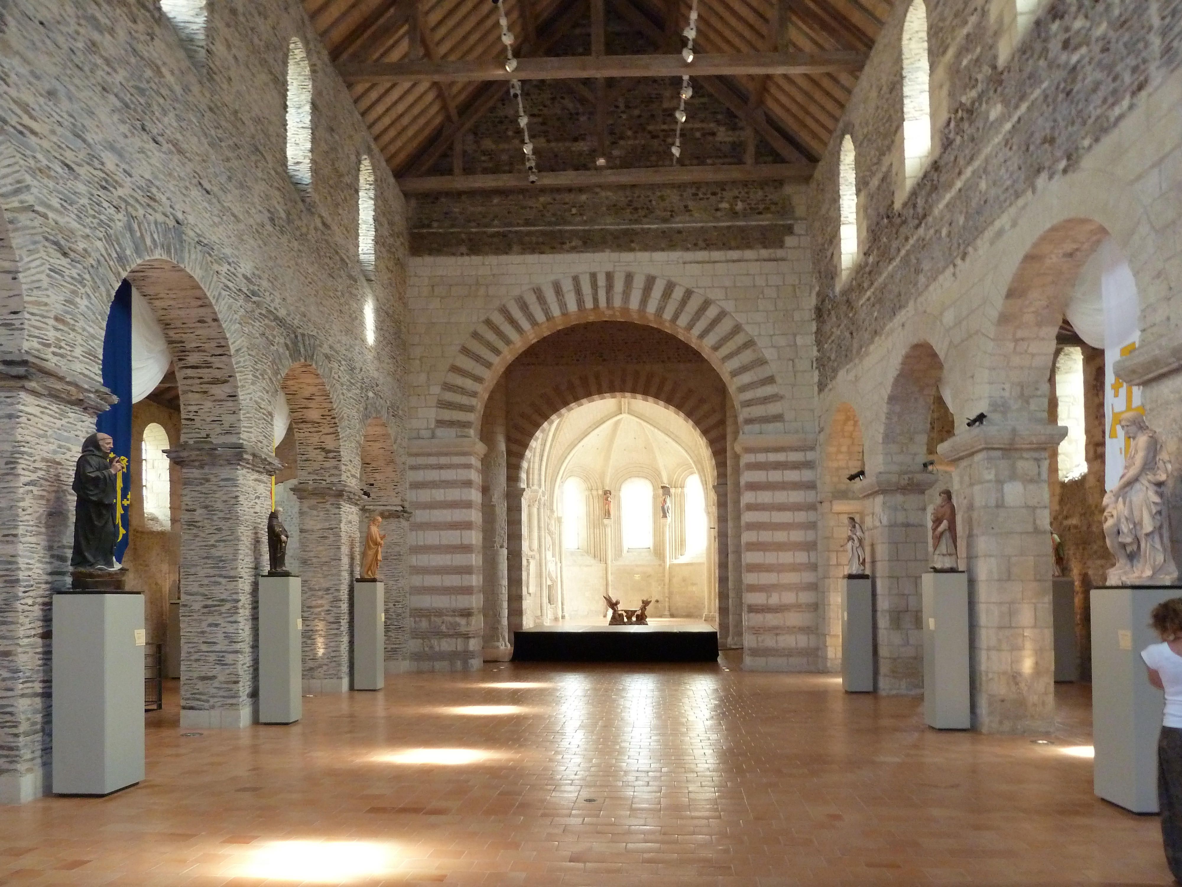 Nave of the Collégiale Saint-Martin of Angers, Maine-et-Loire, Pays de la Loire, France.